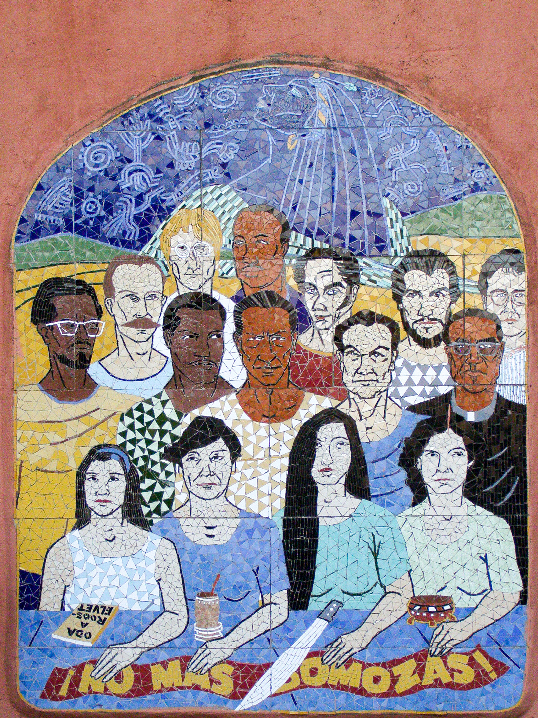 Heroes and martyrs under the Somoza dictatorship - Wall mosaic from the Museum of Legends and Traditions - León - Nicaragua